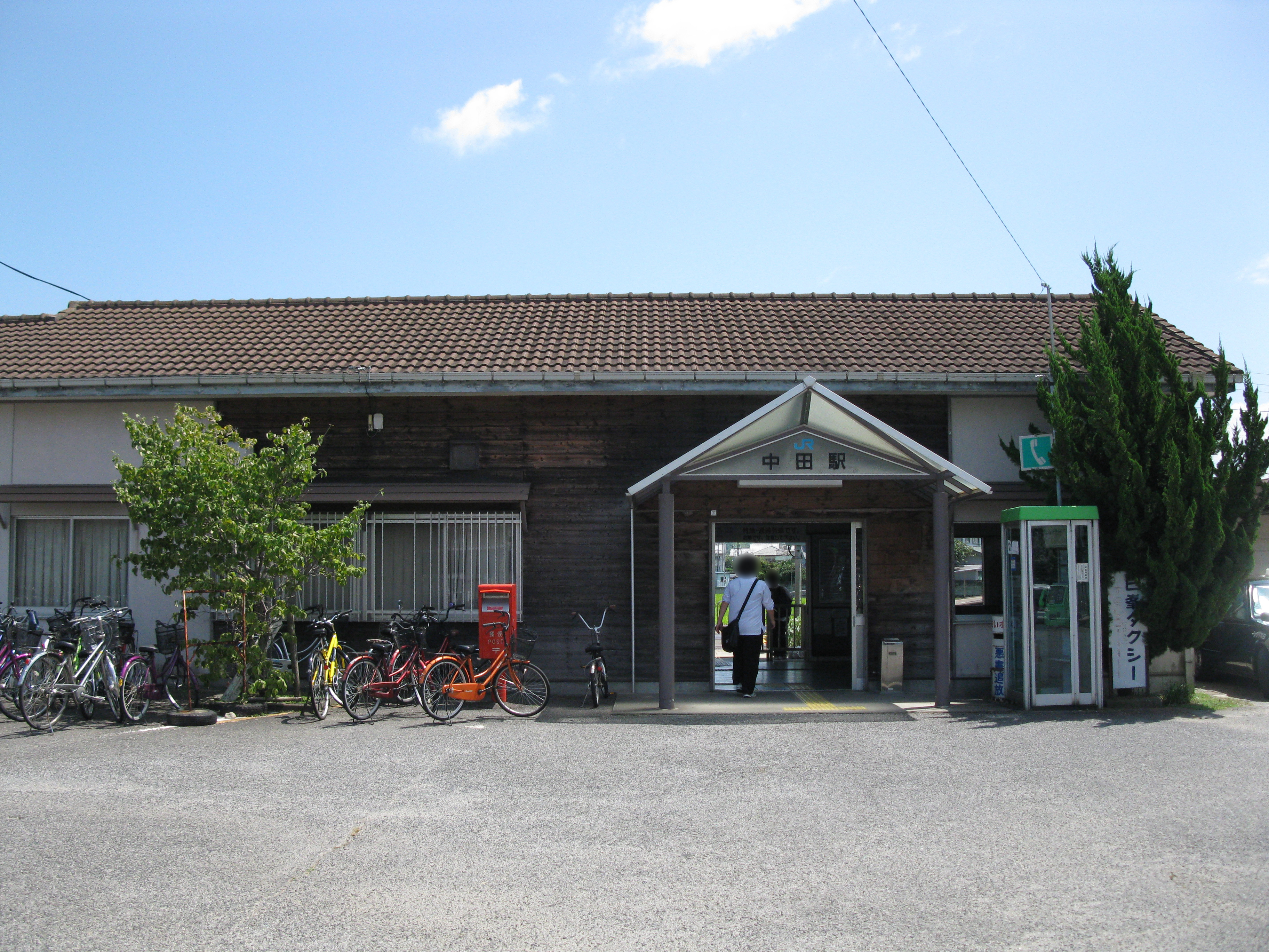 The entrance to Chūden Station on the Shikoku Railway(JR Shikoku) Mugi Line in Komatsushima city, Tokushima prefecture, Japan